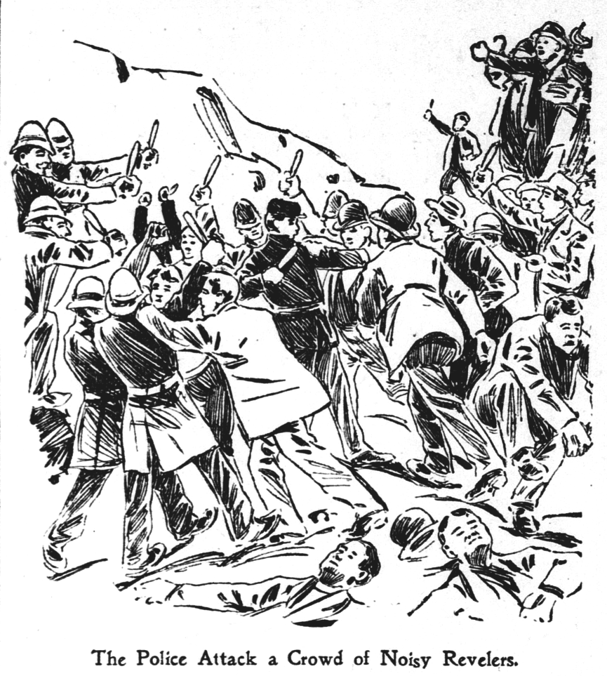 Newspaper clipping from page 6 of the San Francisco Call newspaper, published November 8, 1897.